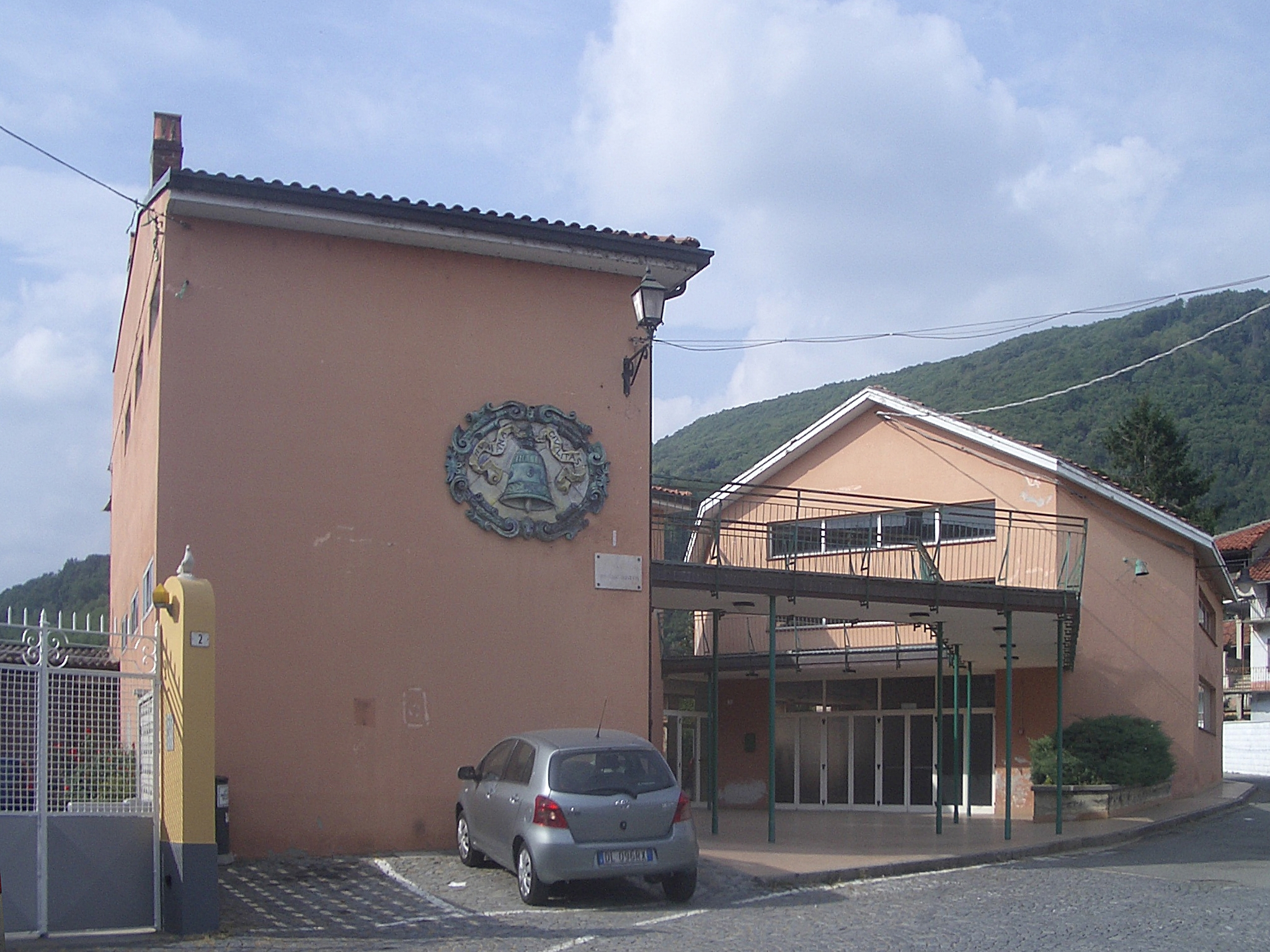 Palazzo Canavese, Centro Comunitario (Community Center) dedicated to Adriano Olivelli; on the facade is placed the symbol of Movimento Comunità (a political movement founded by Adriano OlivettI)